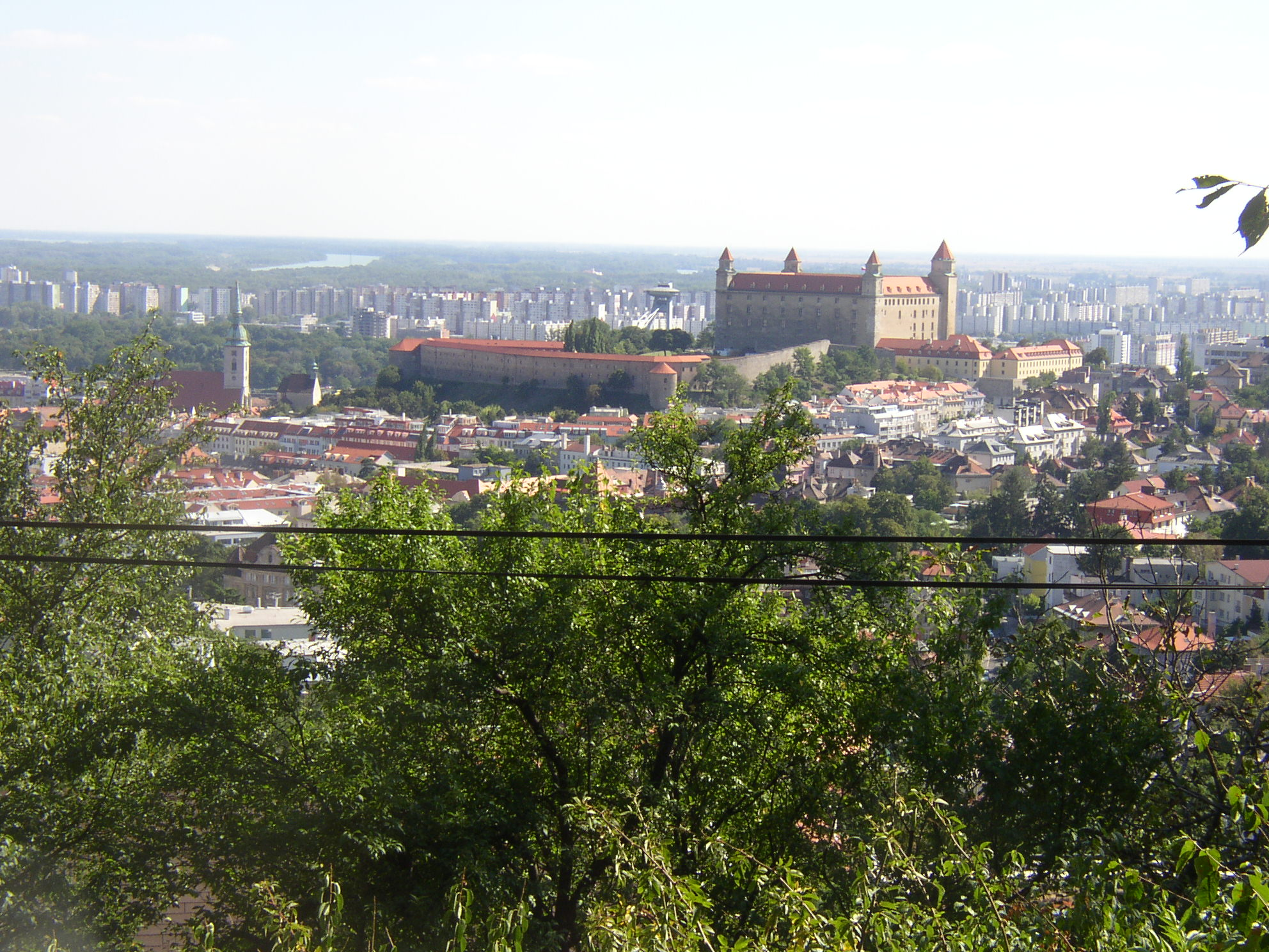 Bratislava as seen from Horský park.